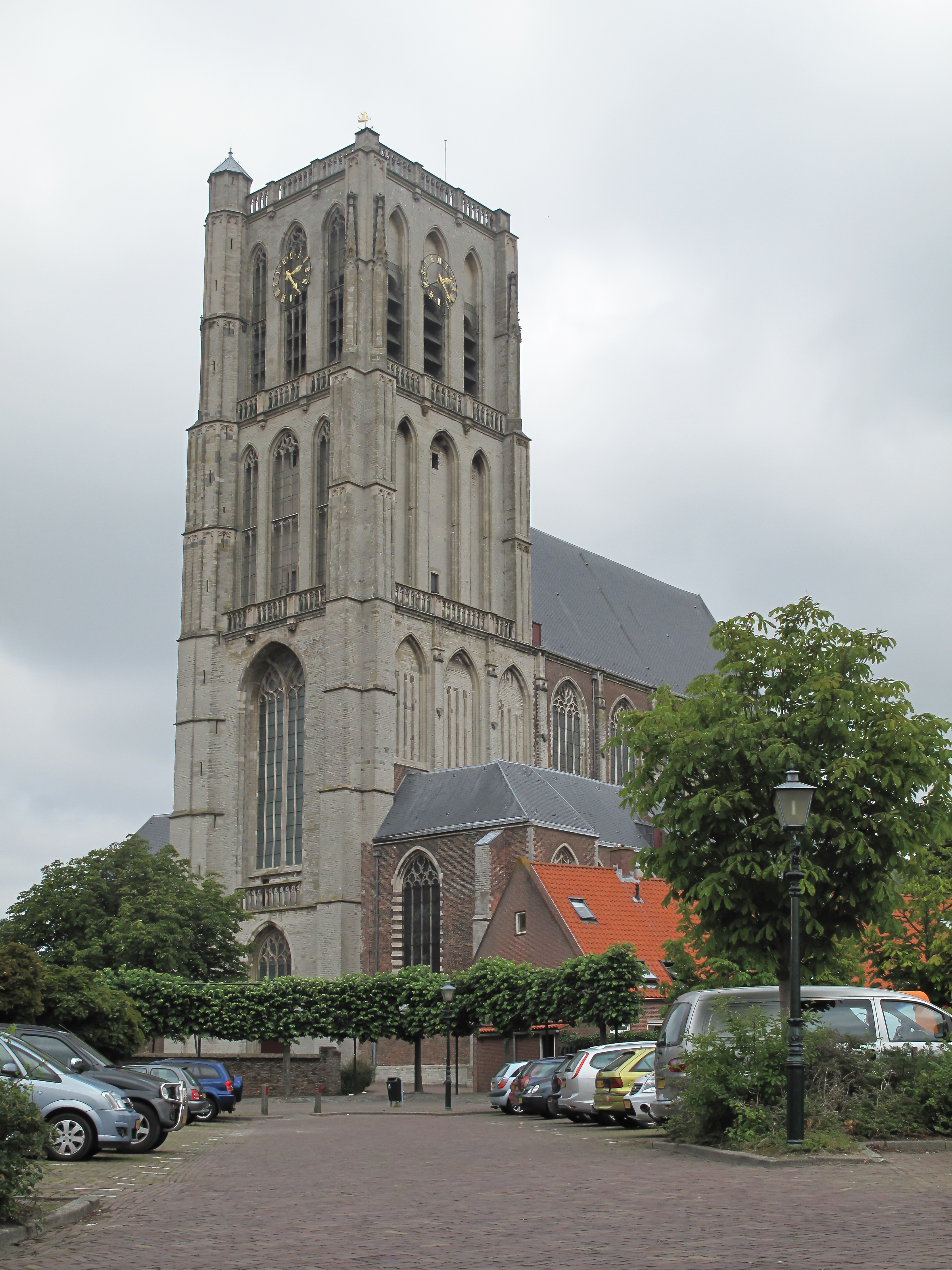 Brielle, church: Sint Catharijnekerk